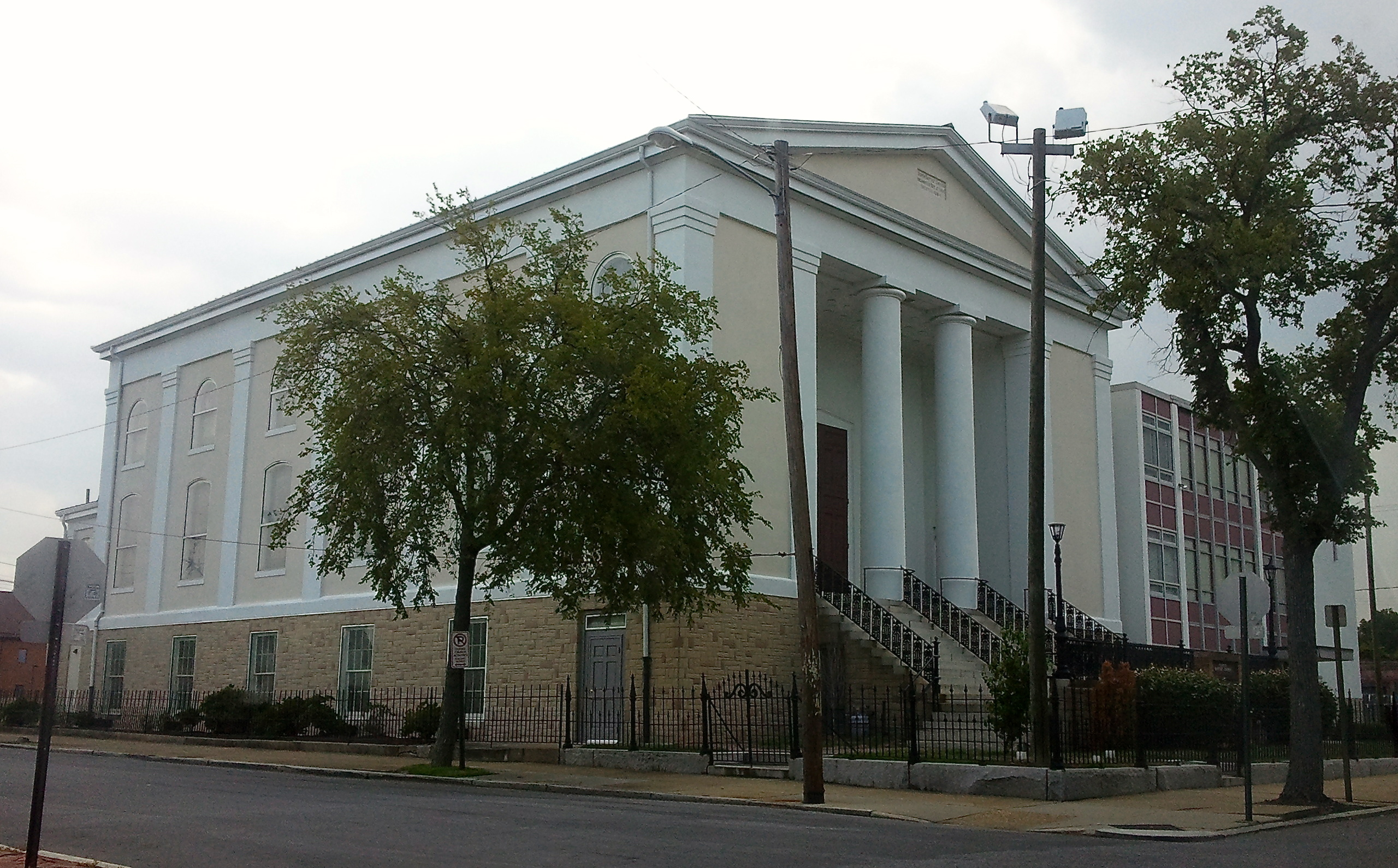 Fourth Baptist Church, Richmond, VA